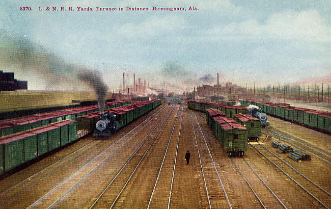 Birmingham AL